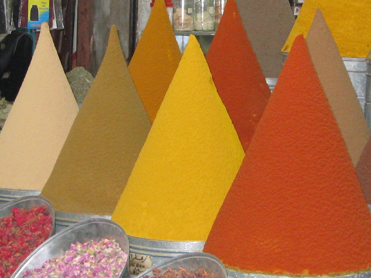 Spice Market, Marakech